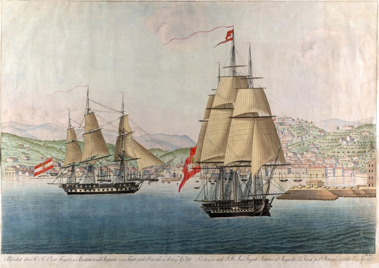 The frigates Austria and Augusta in the port of Trieste on 9 April 1817, preparing to take Archduchess Leopoldina to Brazil